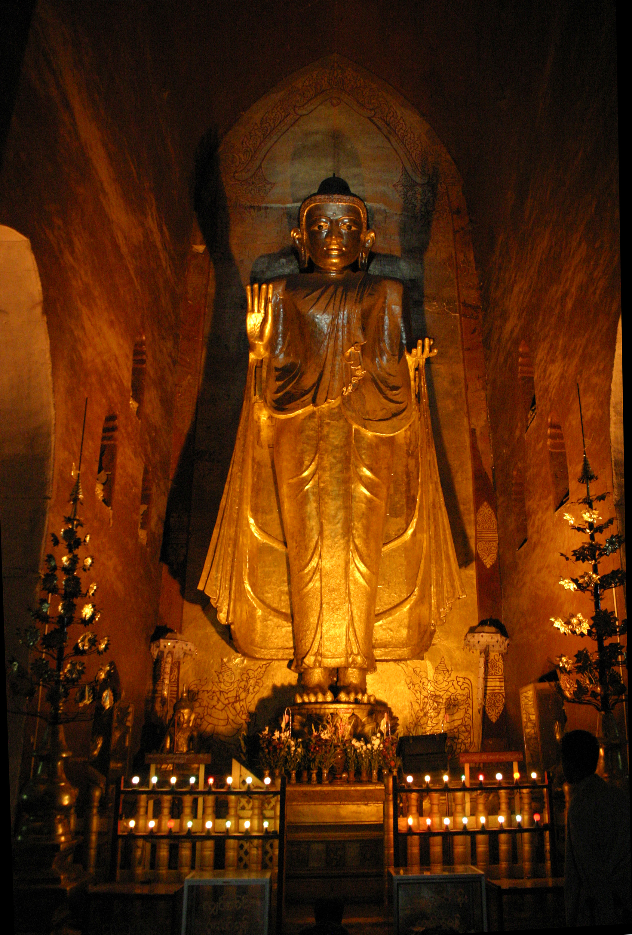 Ananda temple in Bagan, Myanmar.